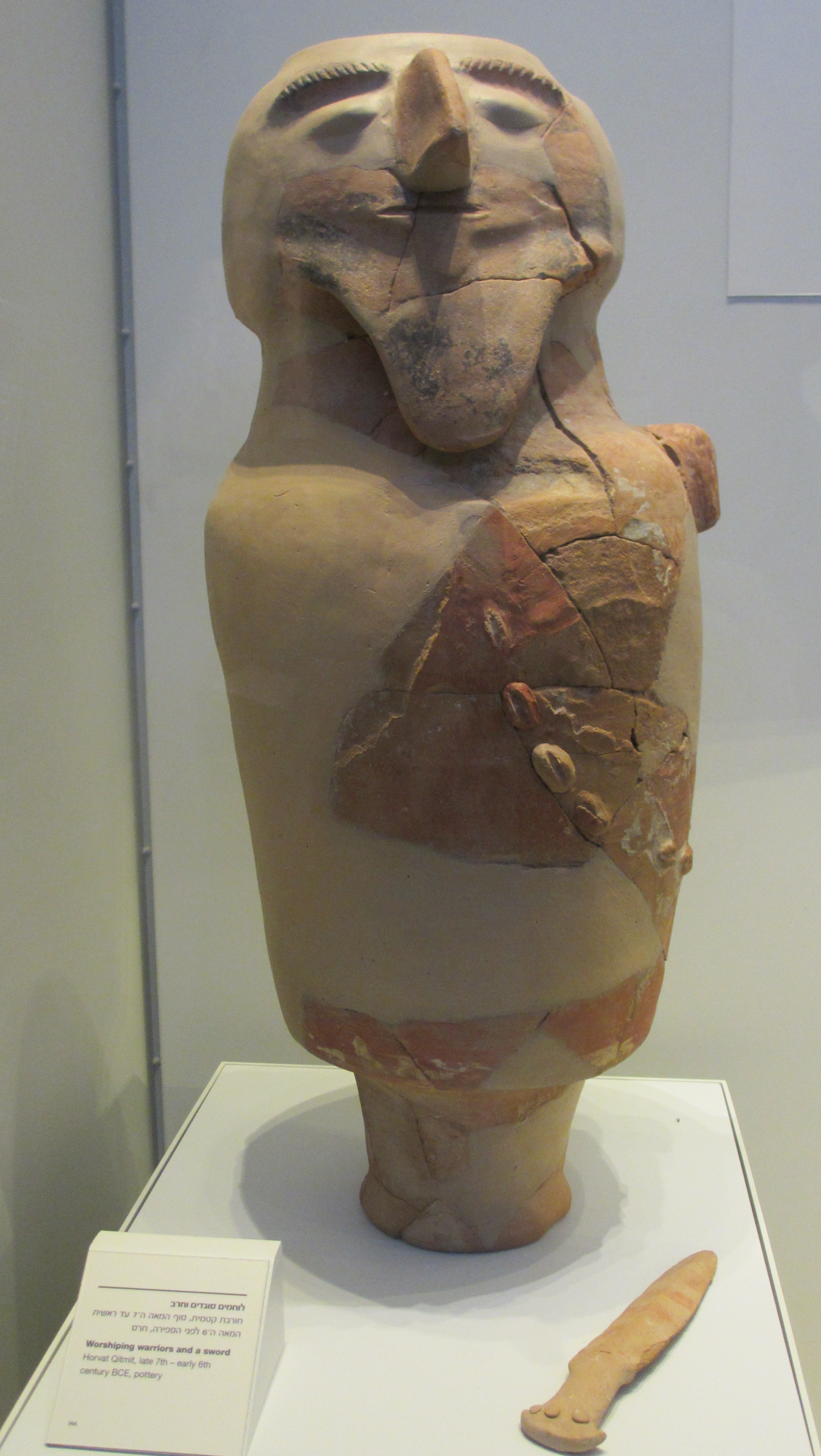 Edomite worshiping warrior from Qitmit (7th-6th BCE). Israel Museum, Jerusalem